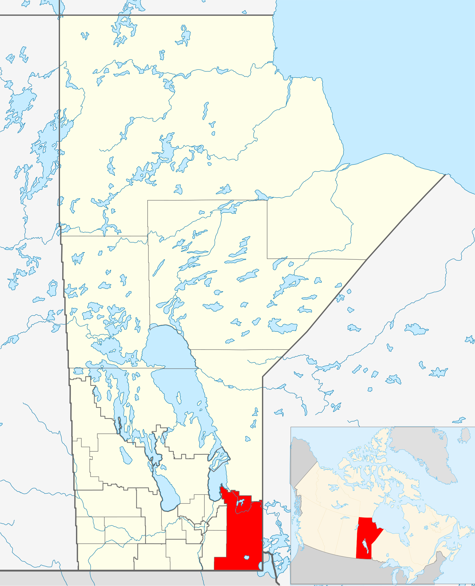 Division No. 1, Manitoba.